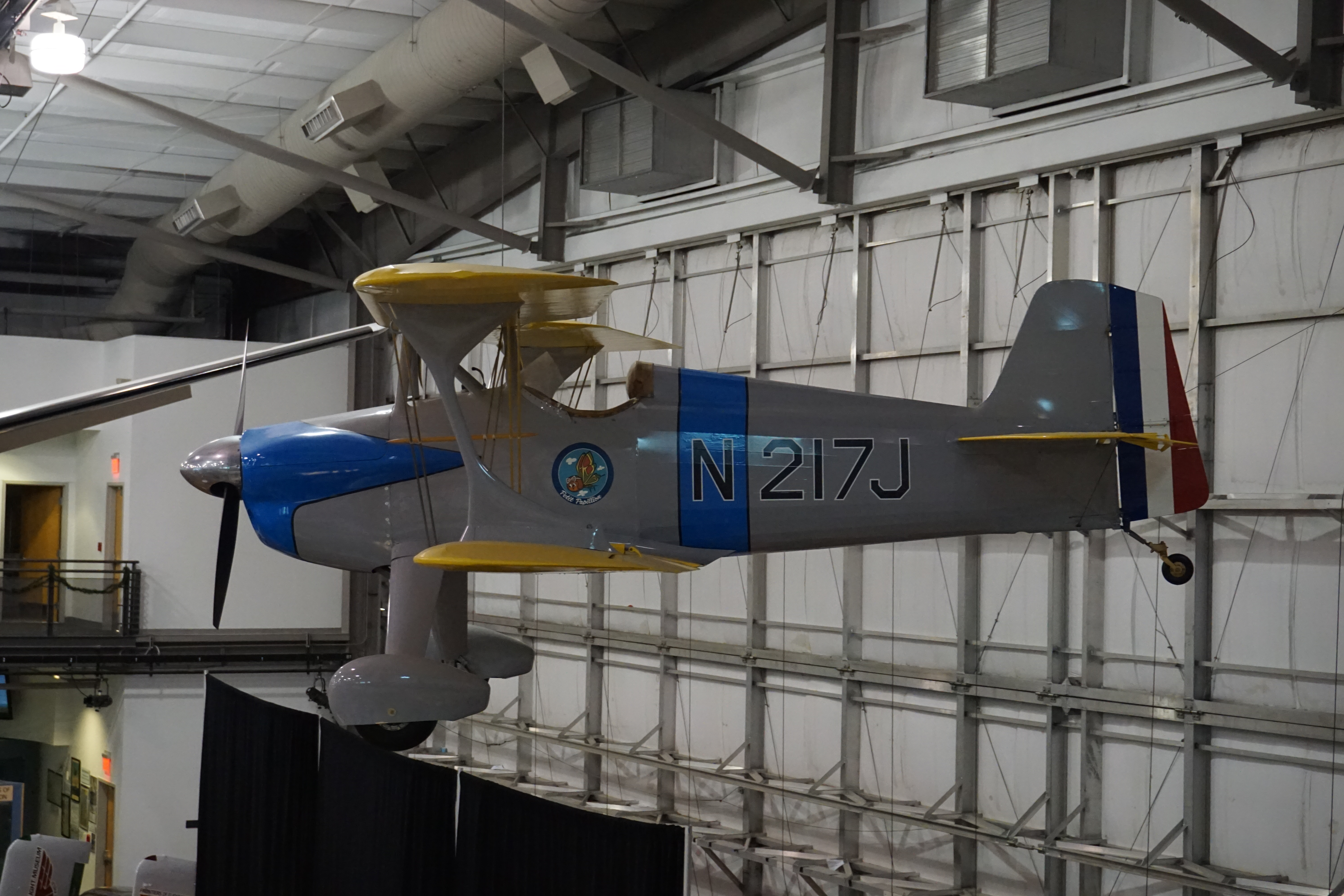 A Meyer's Special Little Toot on display at the Frontiers of Flight Museum at Dallas Love Field in Dallas, Texas (United States).